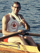 Canadian Roger Jackson poses for photographs with his gold medal after the Men's Coxless Pair Final at Toda Boat Course during the Tokyo Olympic on October 15, 1964 in Toda, Saitama, Japan